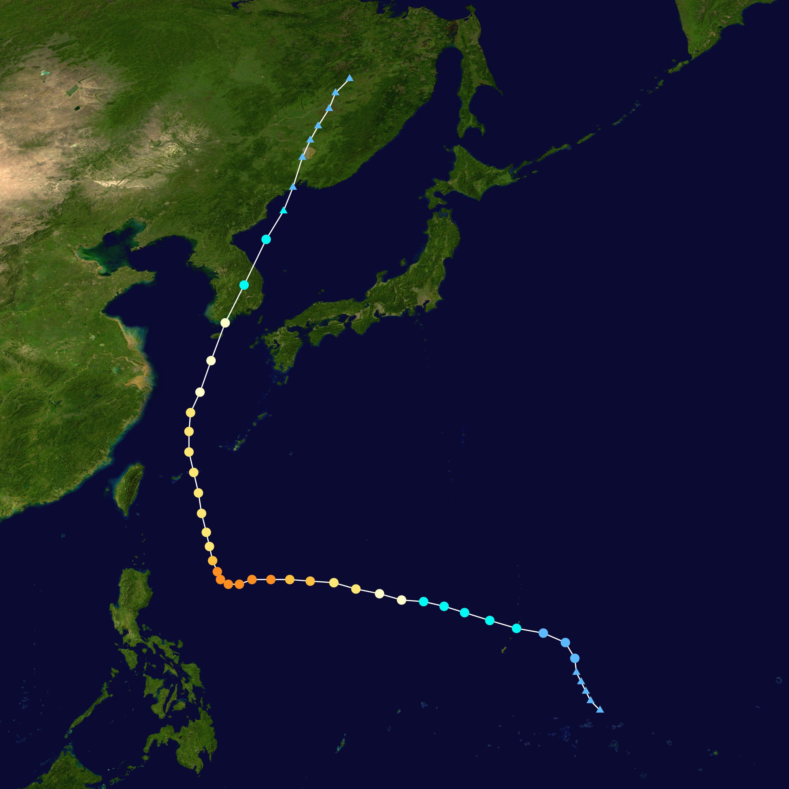 Typhoon Thelma 1987 track. Uses the color scheme from the Saffir-Simpson Hurricane Scale.